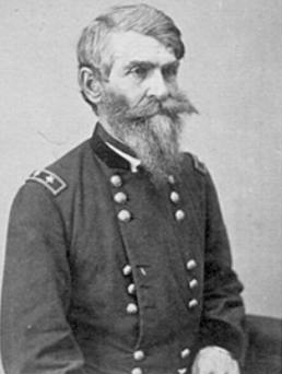 George Sears Greene, Rhode Island's most illustrious Civil War General